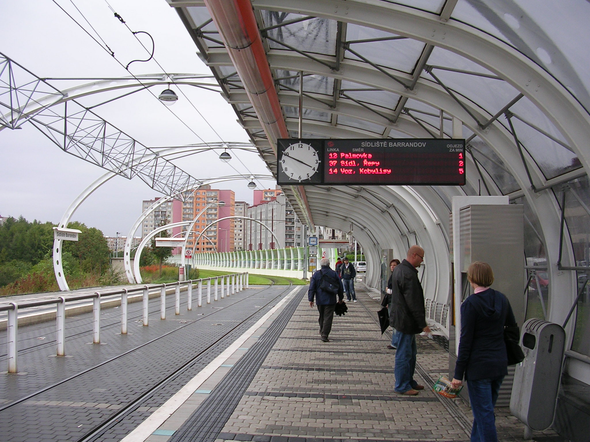 Platform of tram stop Sídliště Barrandov at Barrandov track in Prague.